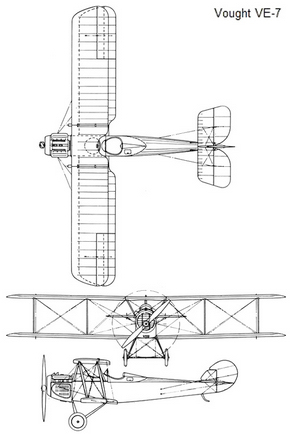 Three side view of a Vought VE-7 biplane, 128 of which were built between 1918 and 1928.